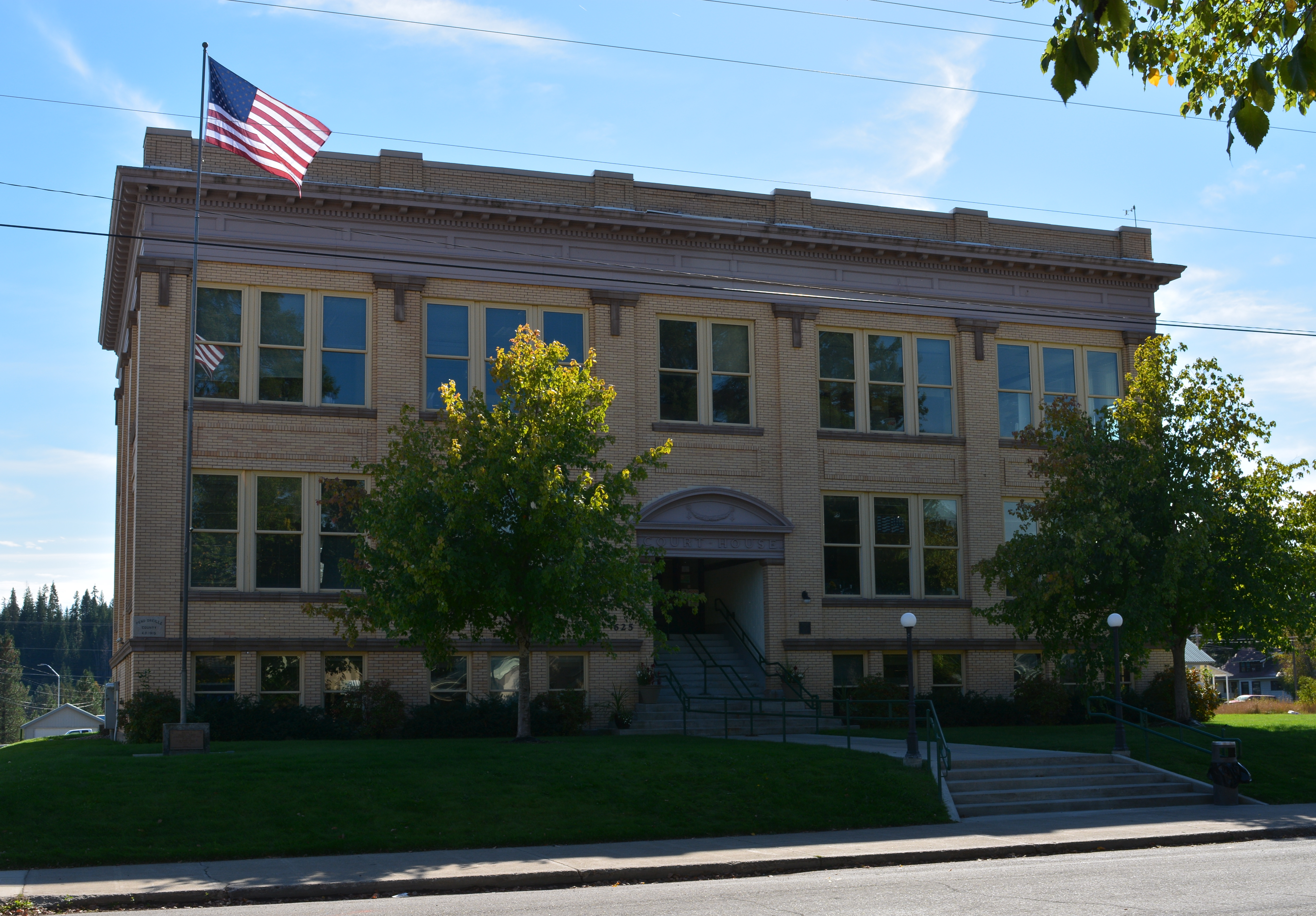 Pend Oreille County Courthouse, 625 W. 4th St. Newport. Looking south, main entrance